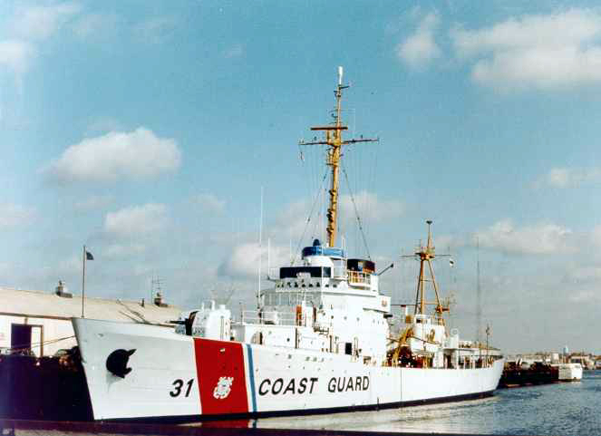 USCGC Bibb WPG-31, picture taken at her home port of New Bedford, MA.